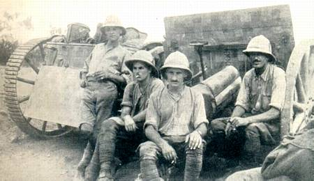 Photograph of A Sub-section, B Battery, Honourable Artillery Company, at Sheik Othman, Aden. The gun is a QF 15-pounder.